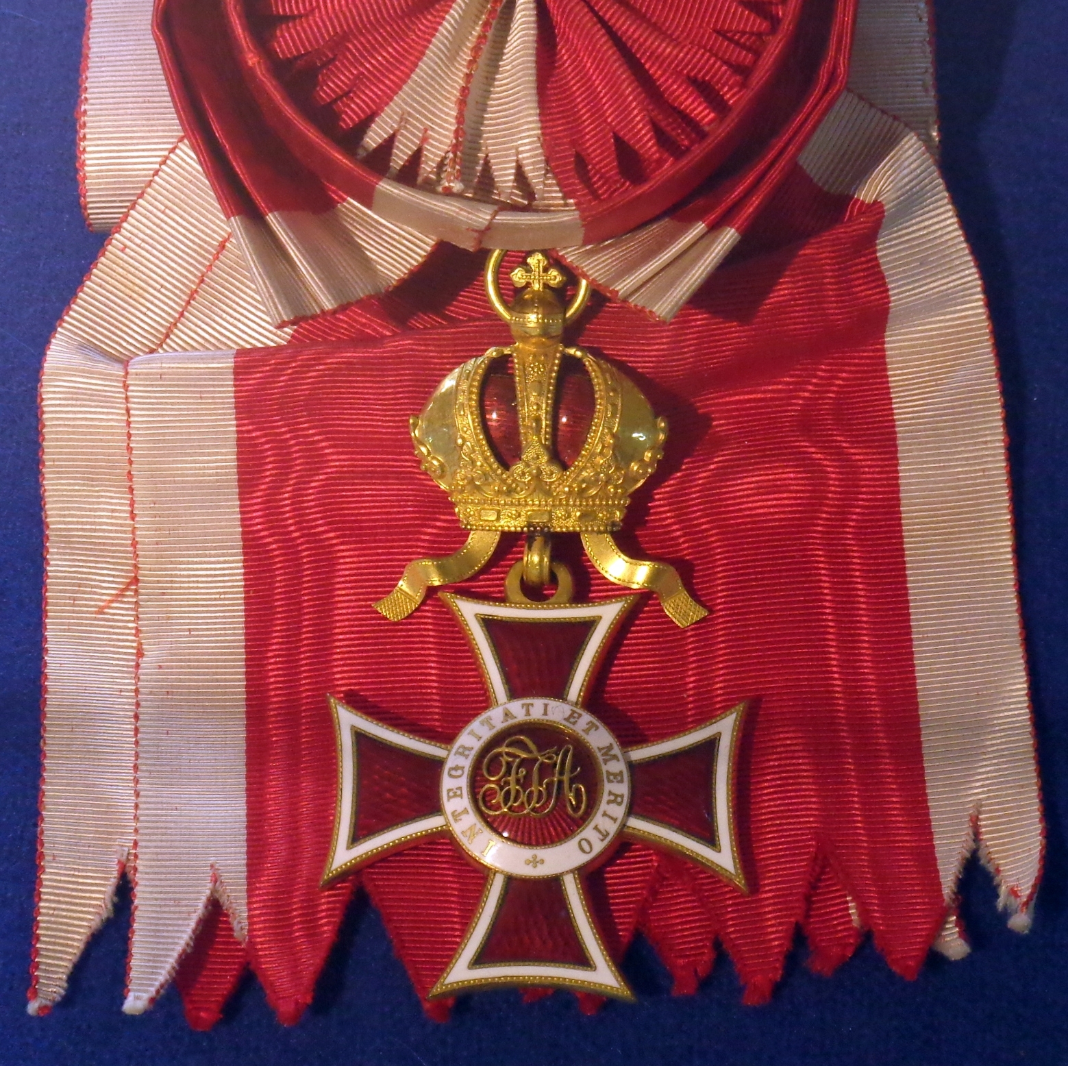 Imperial Order of Leopold, badge and sash of Grand Cross, 1914-1918. Austro-Hungary. The exhibition of the Tallinn Museum of Orders of Knighthood, Estonia.